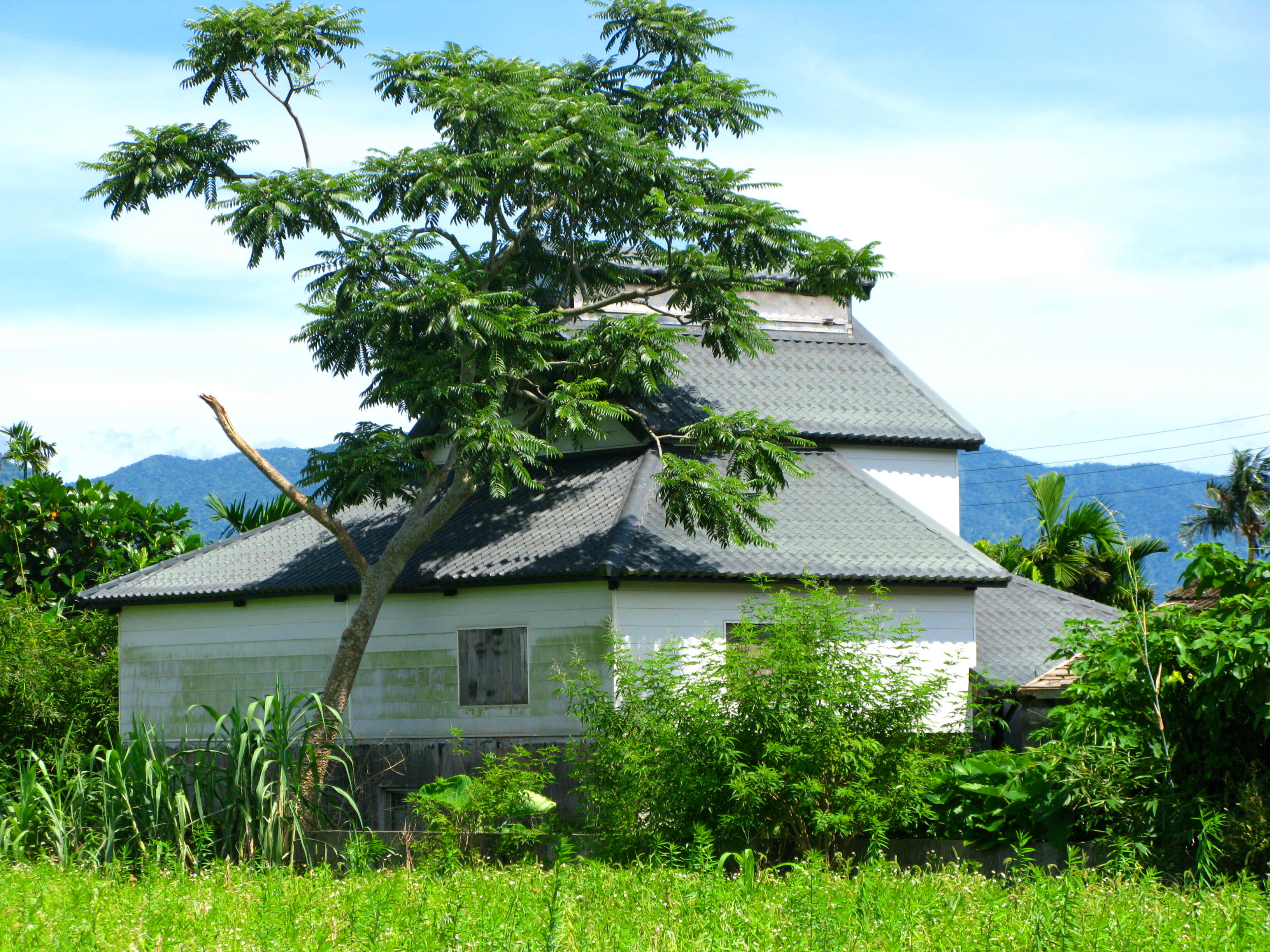 Cigarettes BuildingⅡ，Taiwan.